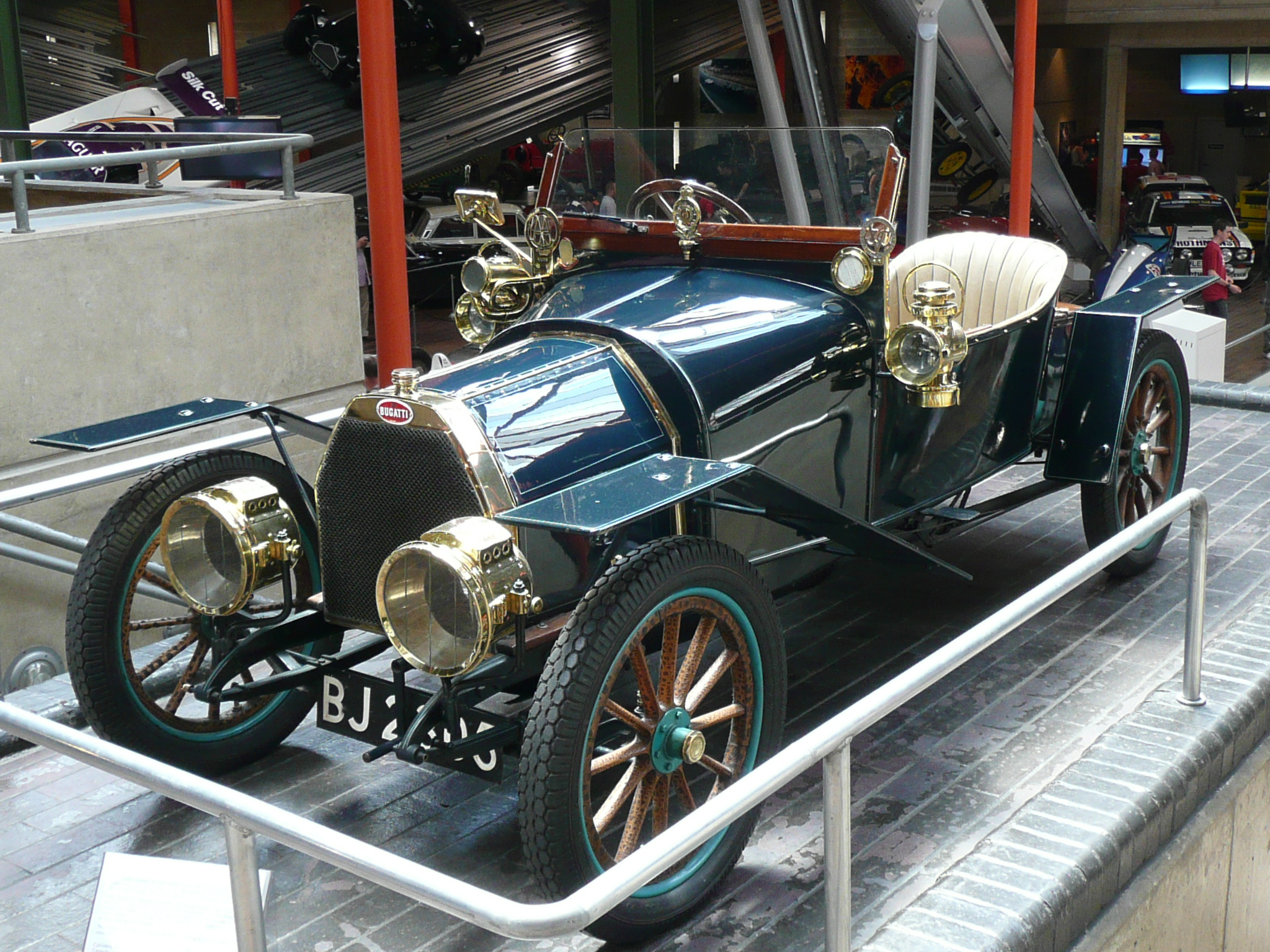 1910 Bugatti Type 15, National Motor Museum in Beaulieu.